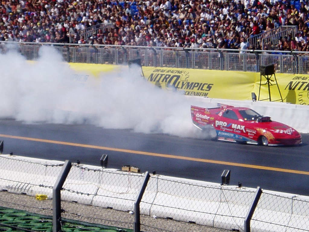 Funny Car @ Nitrolympics 2003, Hockenheim